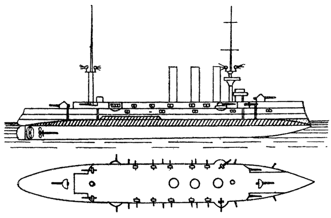 RUS Aurora cruiser scheme